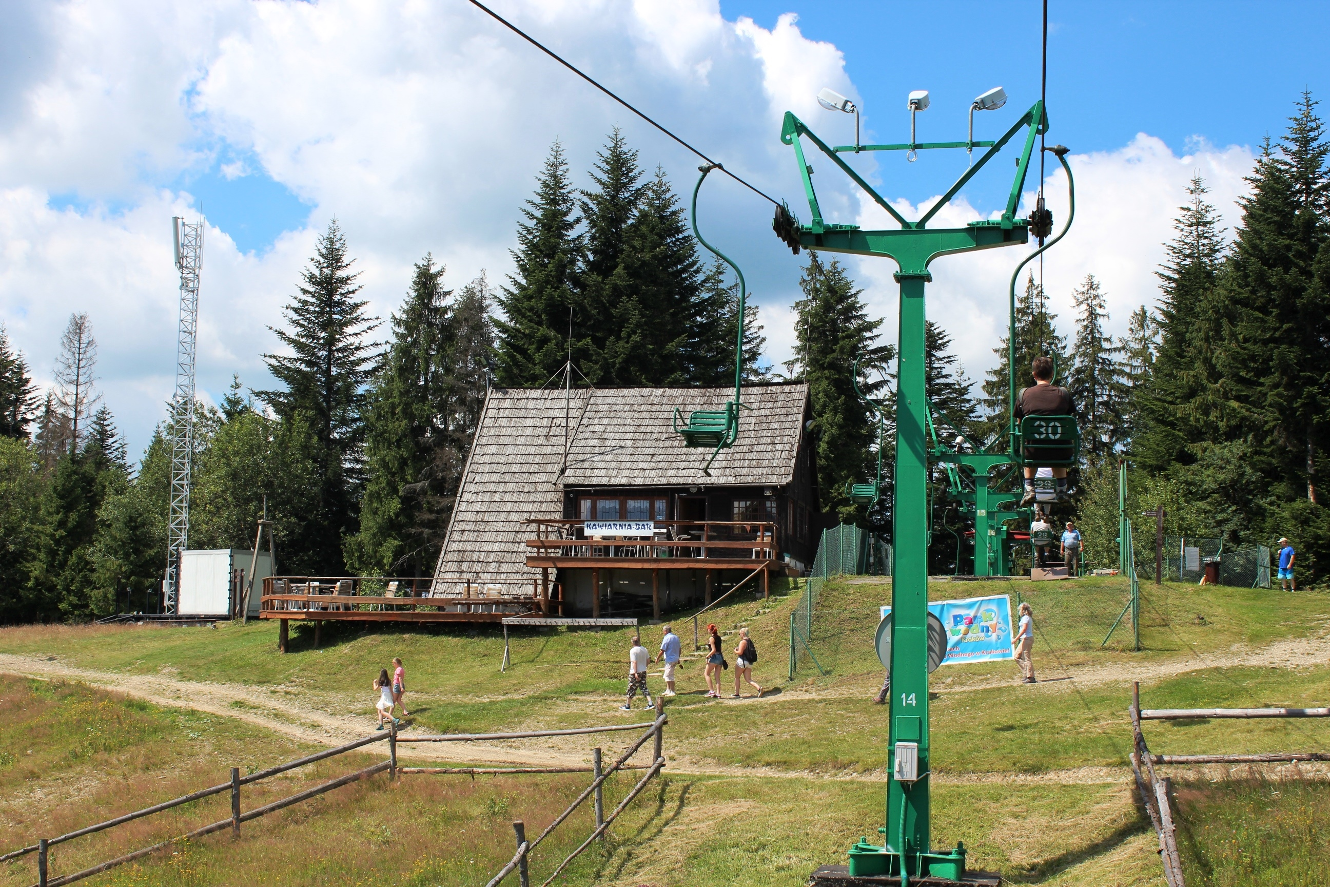 Tobołów Chairlift